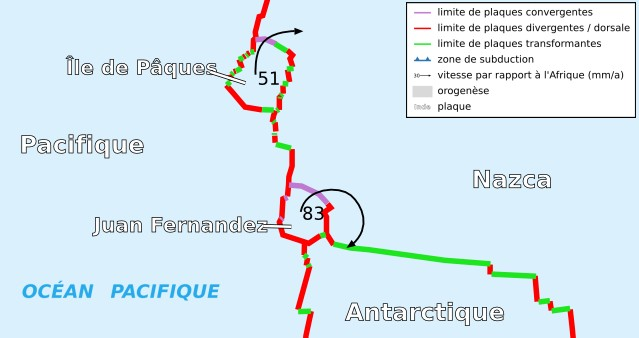 Map of the Easter and Juan Fernandez Plates